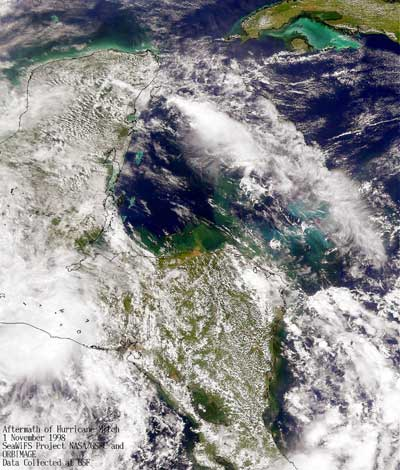 The run-off from Mitch on November 1, en:1998. It is especially noticeable north of the Honduras. From